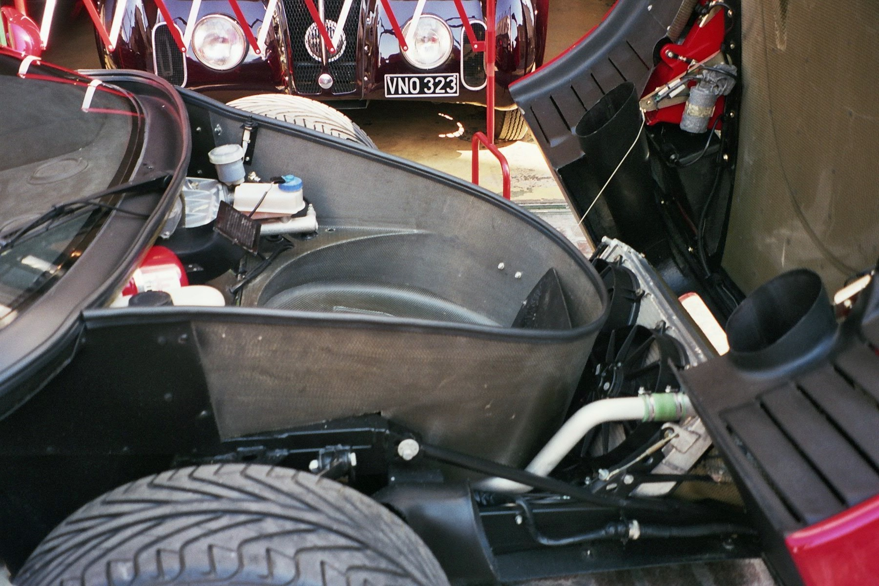 Vintage car sold at Coys of Kensington, London